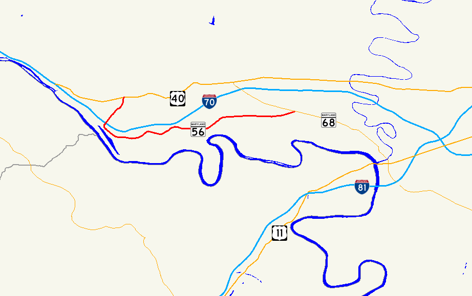 Map of Maryland Route 56